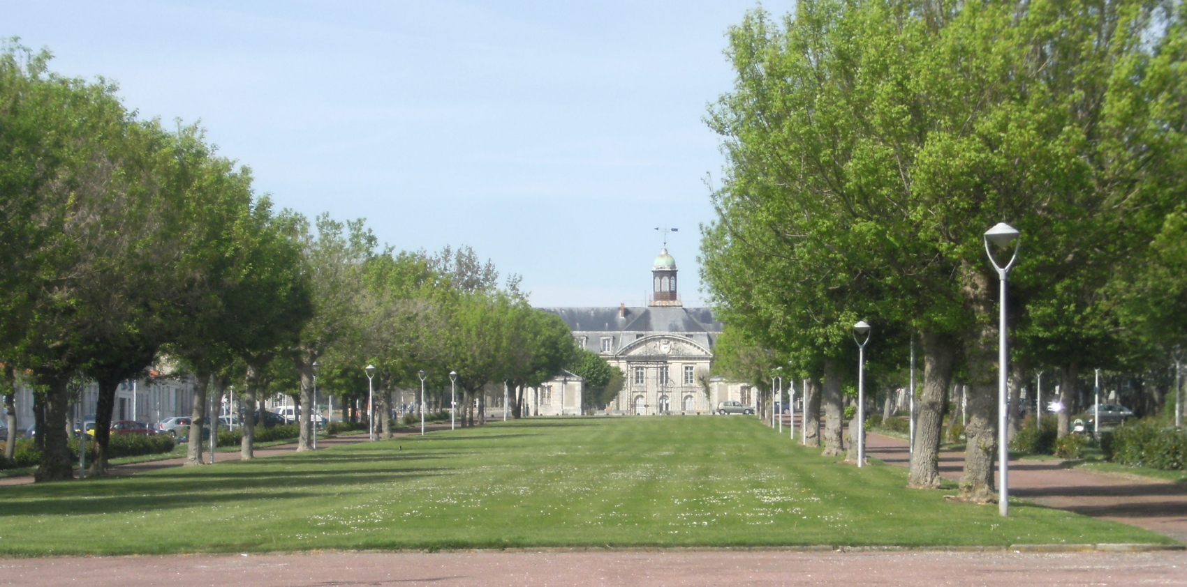 Cours d'Ablois à Rochefort